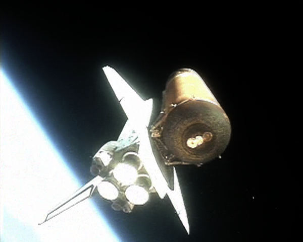 Space Shuttle Discovery seen with her external fuel tank as she climbs into orbit 3 seconds after solid rocket booster separation on STS-121, July 4, 2006. Photo from video from the right aft SRB camera.